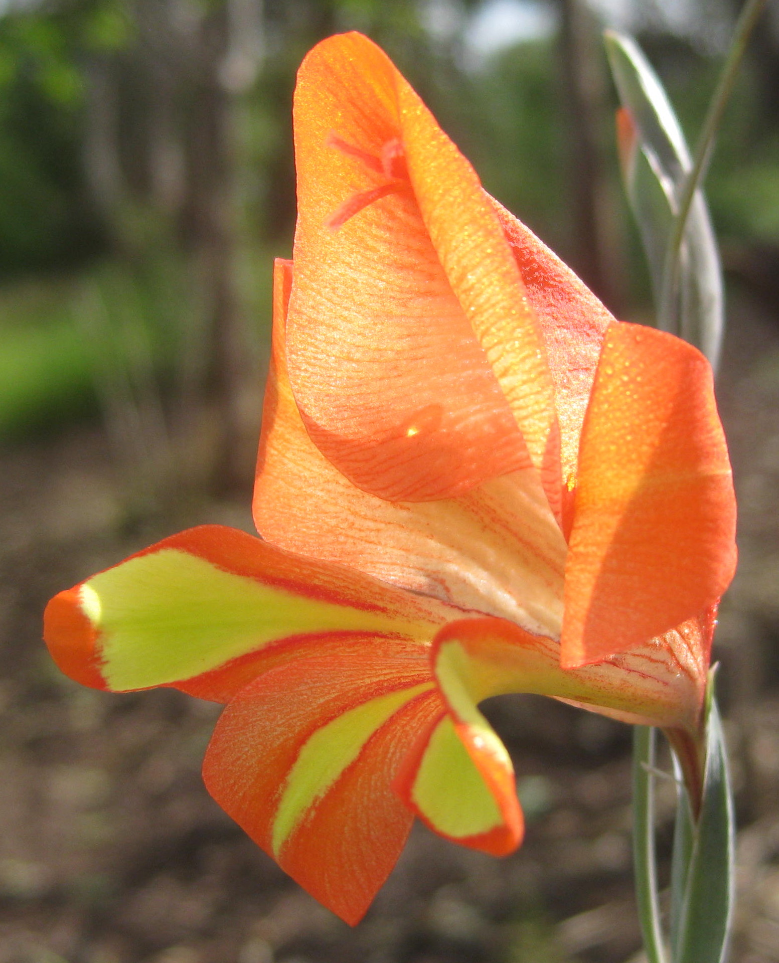 Gladiolus decorus in the wild. Ancuabe district of Mozambique.